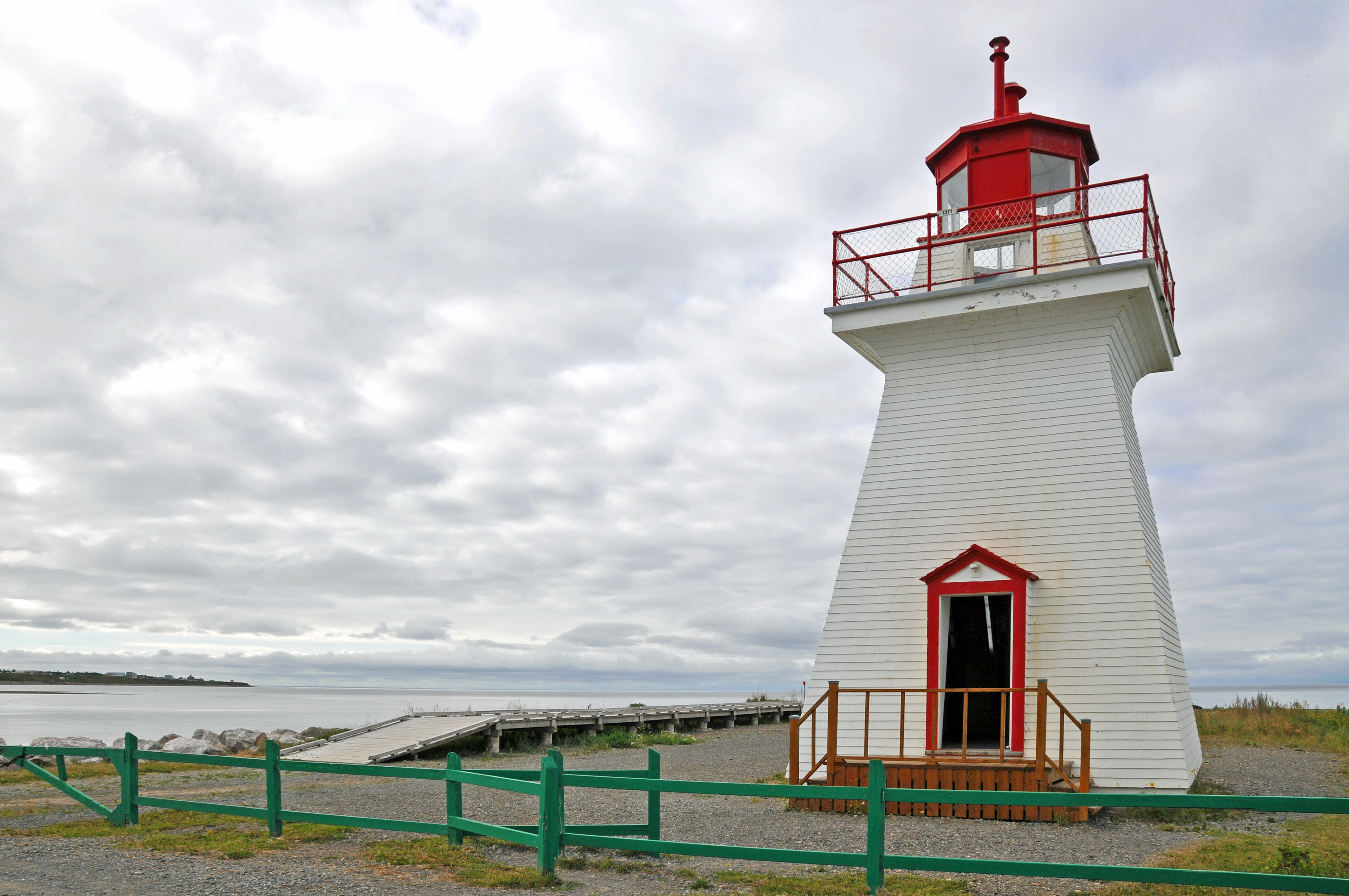 The Bonaventure lighthouse is found on the Pointe Beaubassin, close to the Plage Beaubassin campground. Nearest Town or City: Bonaventure Quebec Canada Location: Baie des Chaleurs, Gaspé Peninsula. Notes: This light was established in 1902 at nearby Pointe Echouerie and moved to Pointe Bonaventure in 1907. Tower Height: 10.4 meters (34 feet) Description Tower: White, square, pyramidal wooden tower with a red lantern. Operational: No Date Established: 1907 Date Present Tower Built: 1902 Current Use: Unknown Open To Public: Grounds only. Directions: The lighthouse is on private property. It can be seen from Highway 132 a few miles east of the town of Bonaventure. There is parking along the highway. Characteristic Range: Green flash every 5 seconds; range 12 miles (1995). Height Focal Plane: 52 National Register: No Alternate Name1: Pointe Souris Light Alternate Name2: Pointe Echouerie Light Date Deactivated: 1998